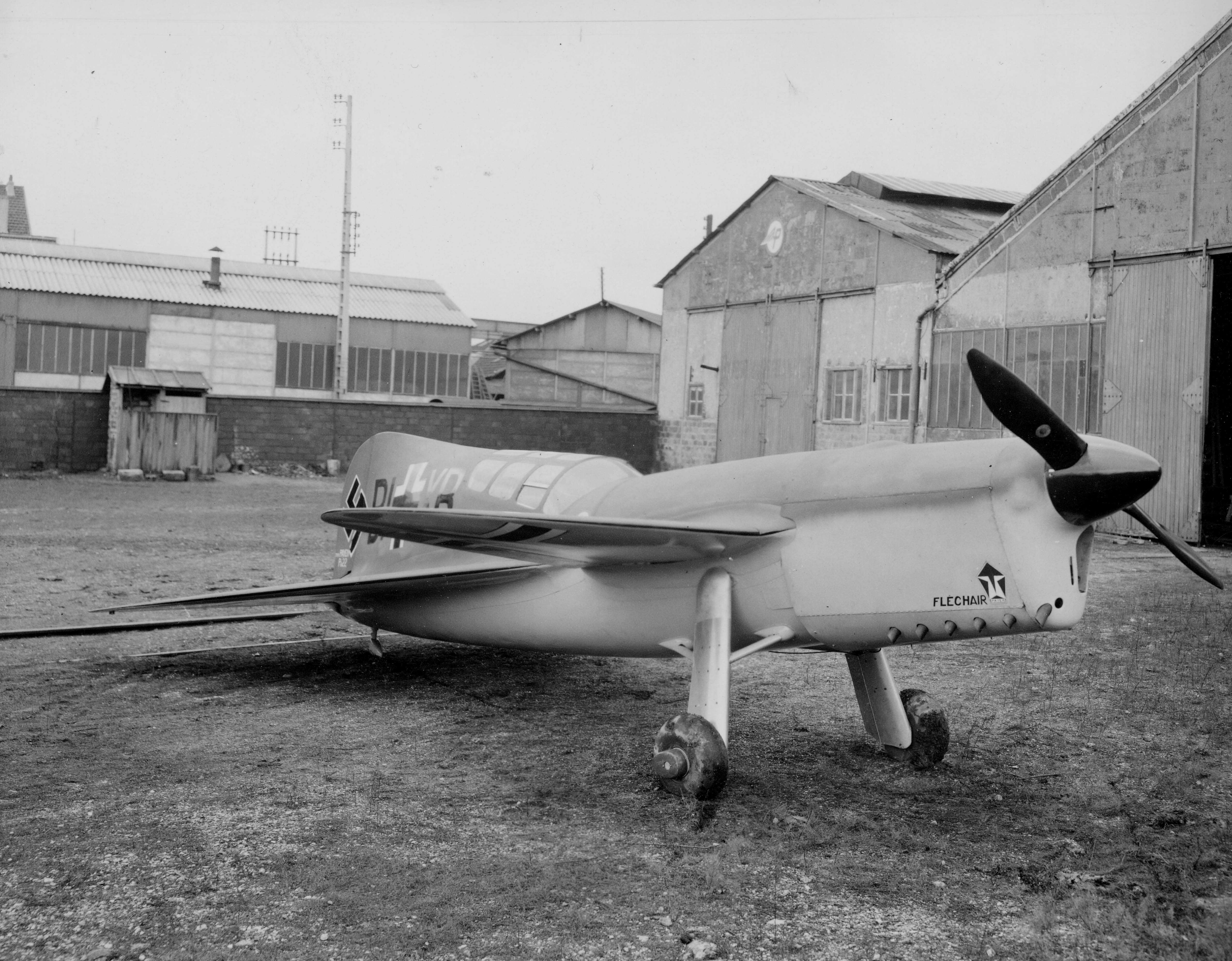 Photo of Payen PA-22 aircraft WW2 samf4u, 12.png